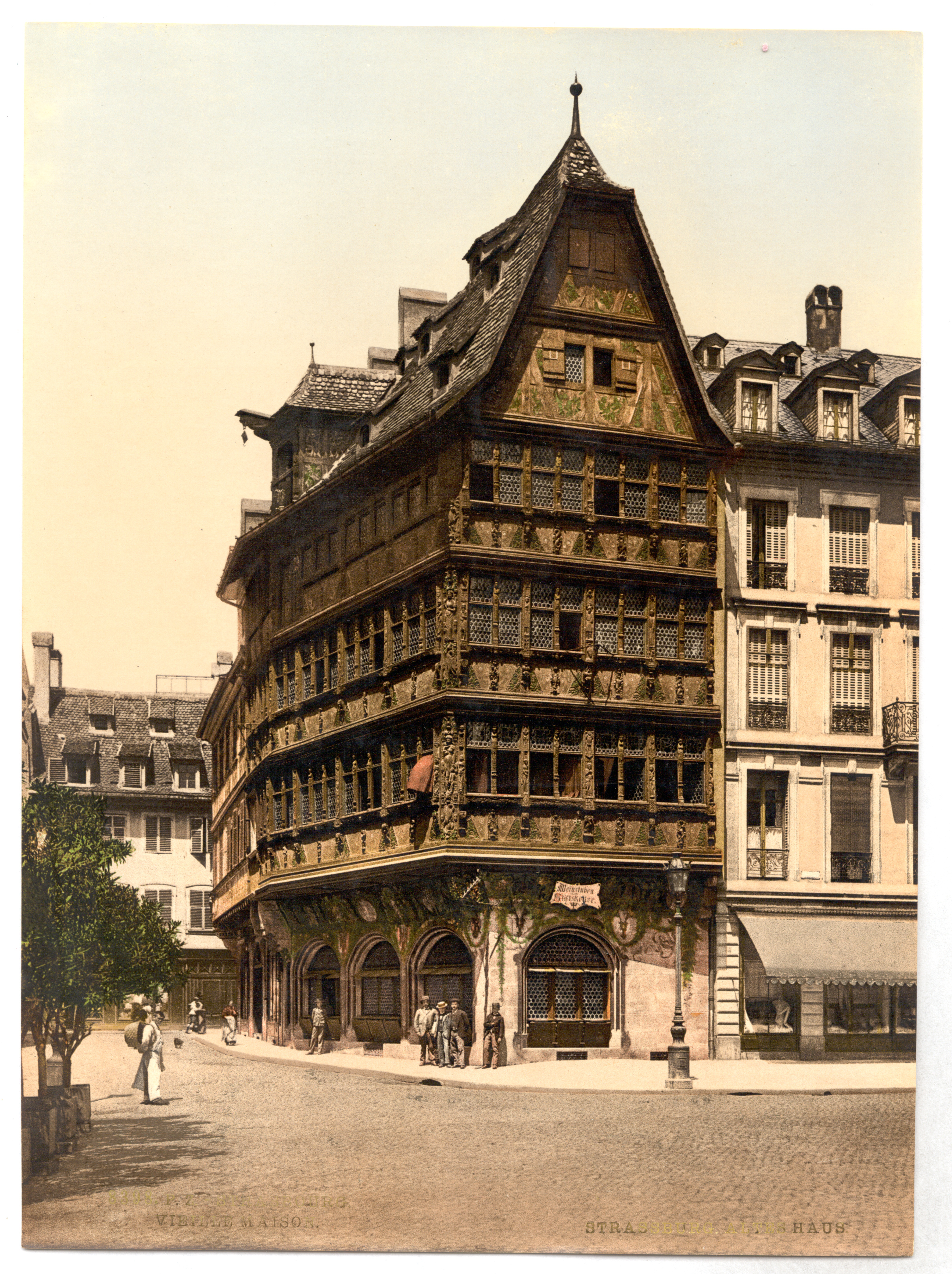 Altehaus Strassburg Alsace Lorraine Germany between ca. 1890 and ca. 1900